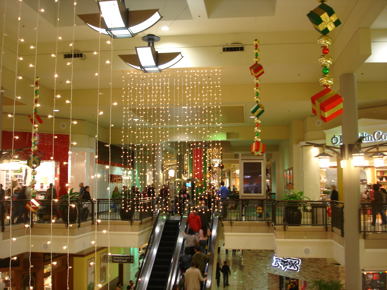 I shot the picture myself